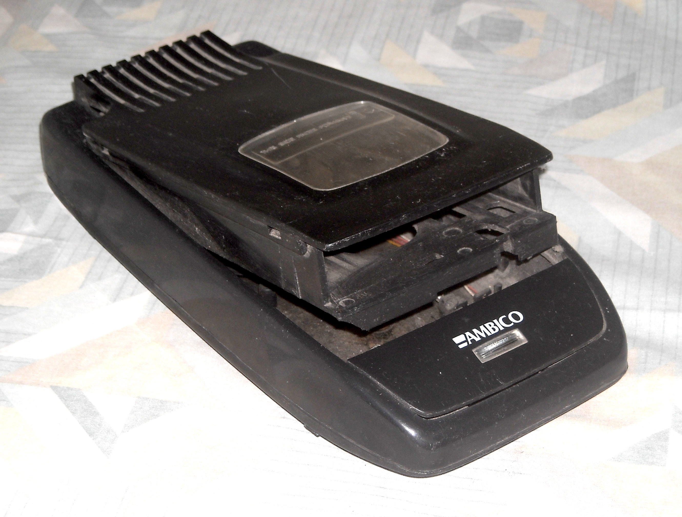 A VHS tape rewinder that I have at home for a long time.